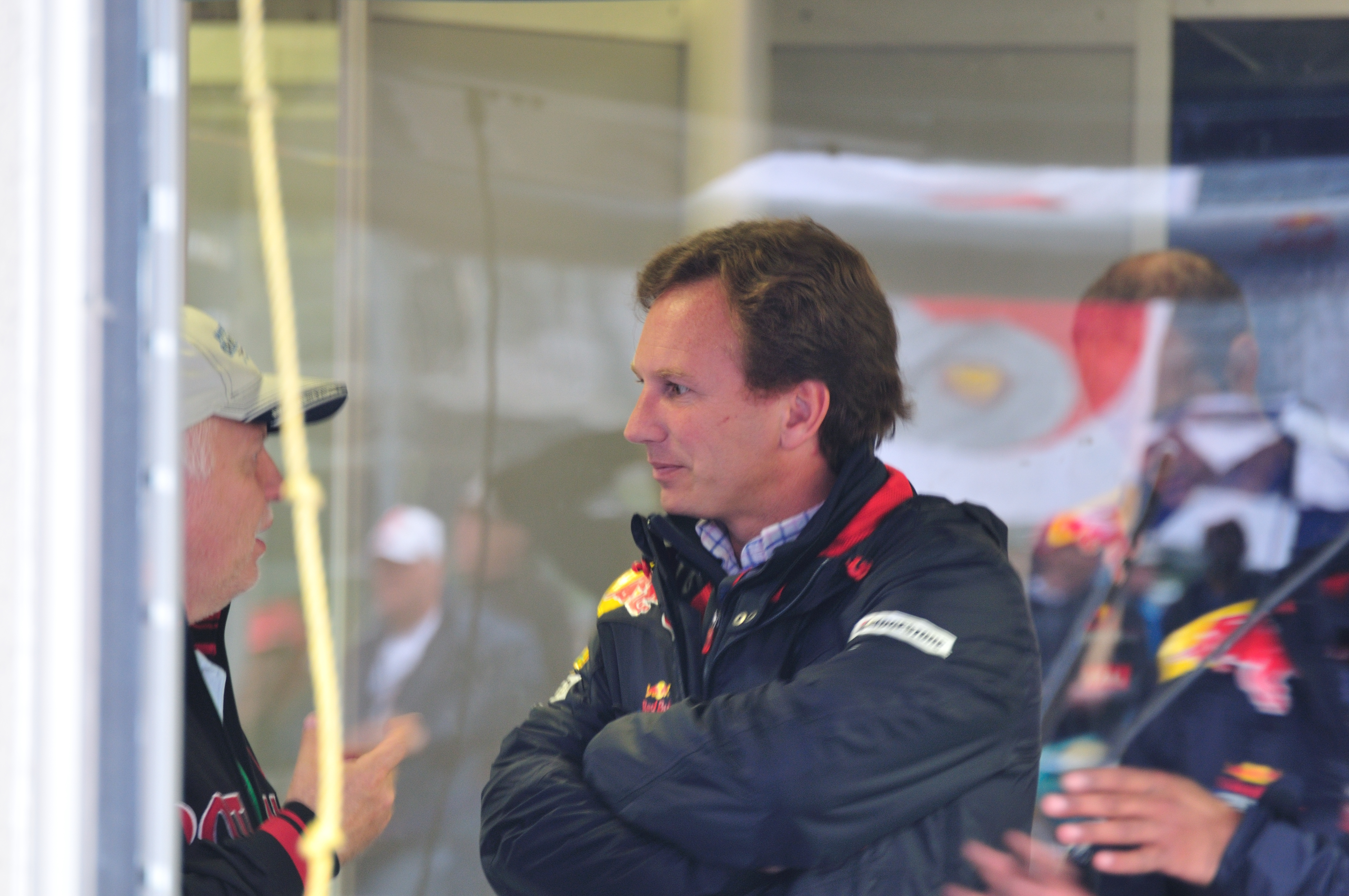 Christian Horner at the 2010 Canadian Grand Prix.